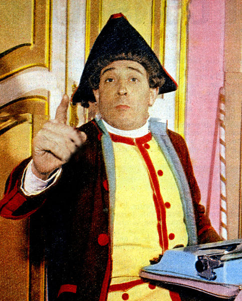 photo from the Italian magazine Radiocorriere (1959)